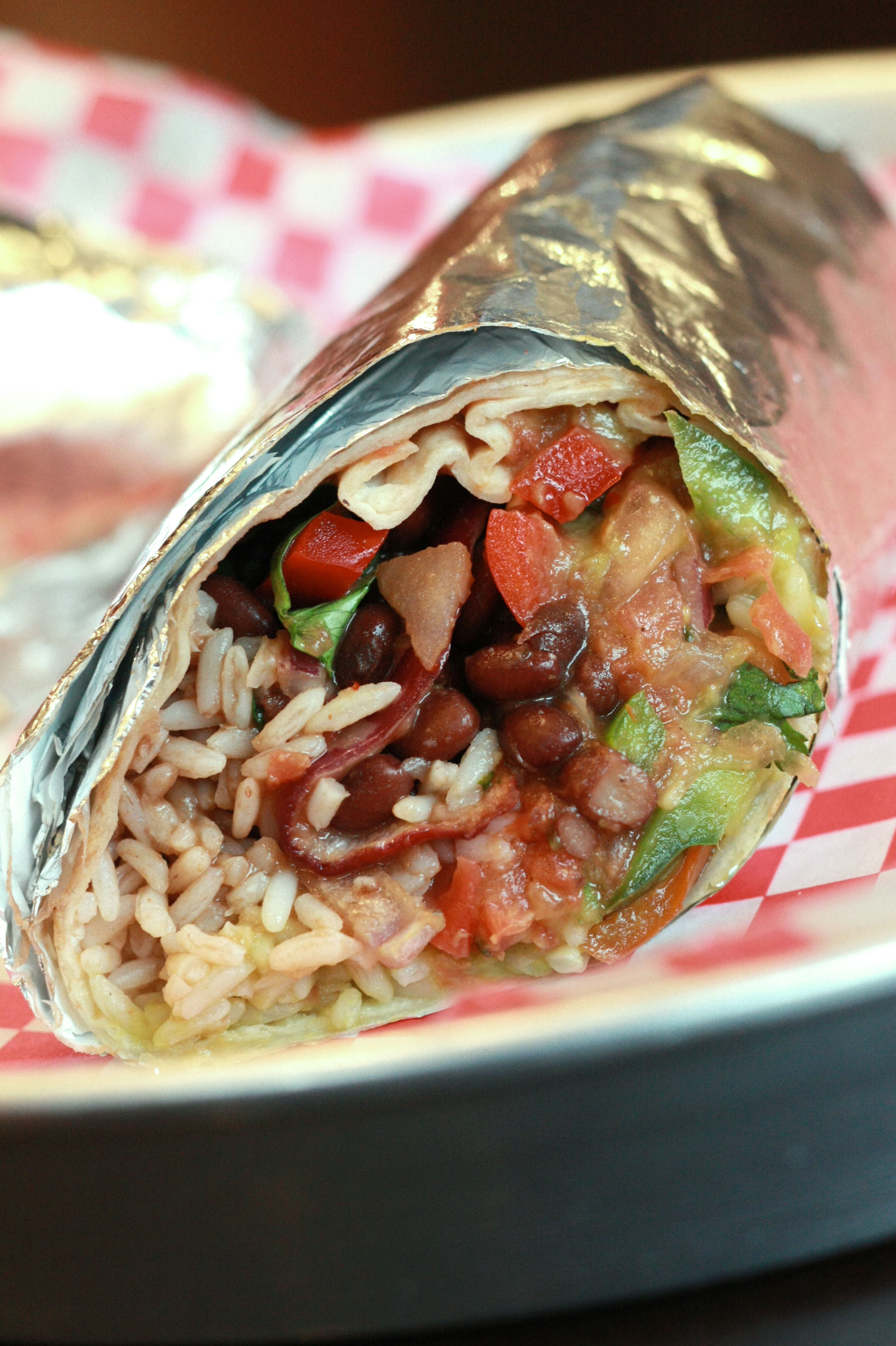 Vegetarian Burrito at Mucho Burrito in Vancouver, BC